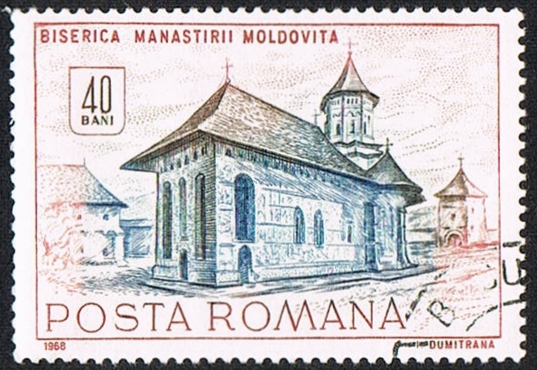 scanned stamp from Rumanian post (Posta Romana). Monastry Church Moldoviata